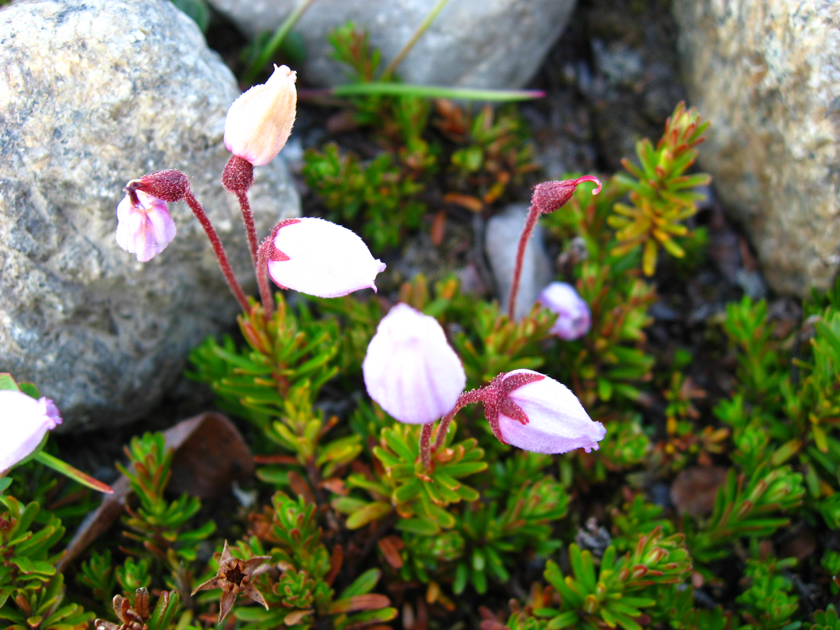 Blue mountainheath (Phyllodoce caerulea) photographed at grave yard in Kangersuatsiaq, Greenland.